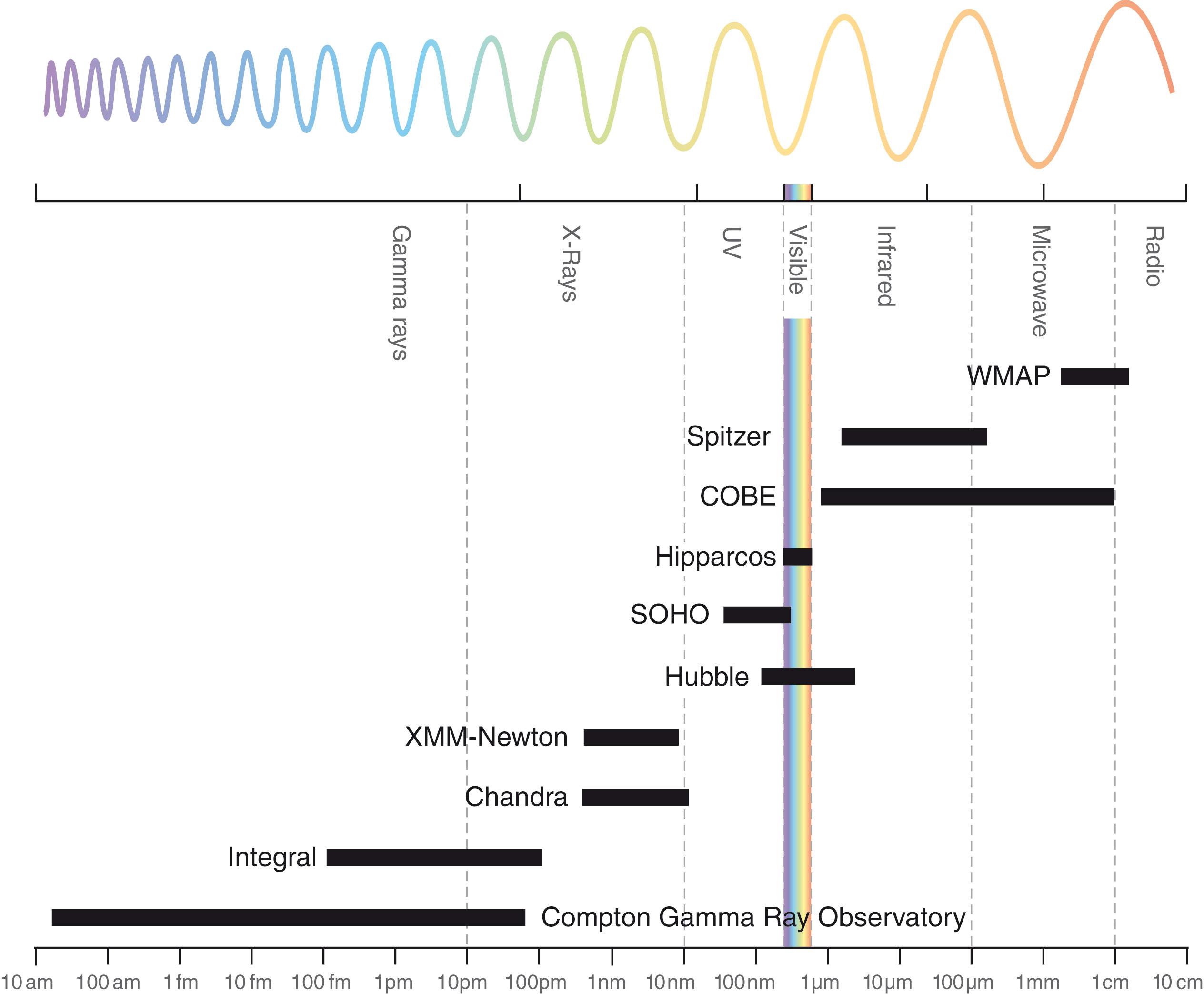 Author: ESA/Hubble